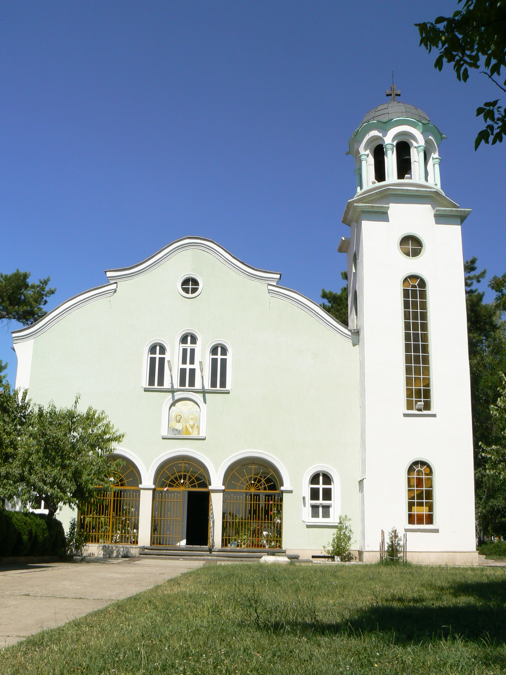 Sts. Cyril and Methodius Church in Montana, Bulgaria